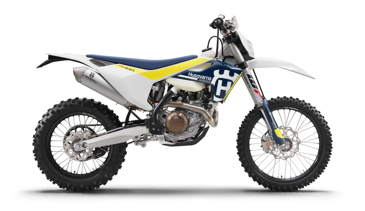 Husqvarna FE 450